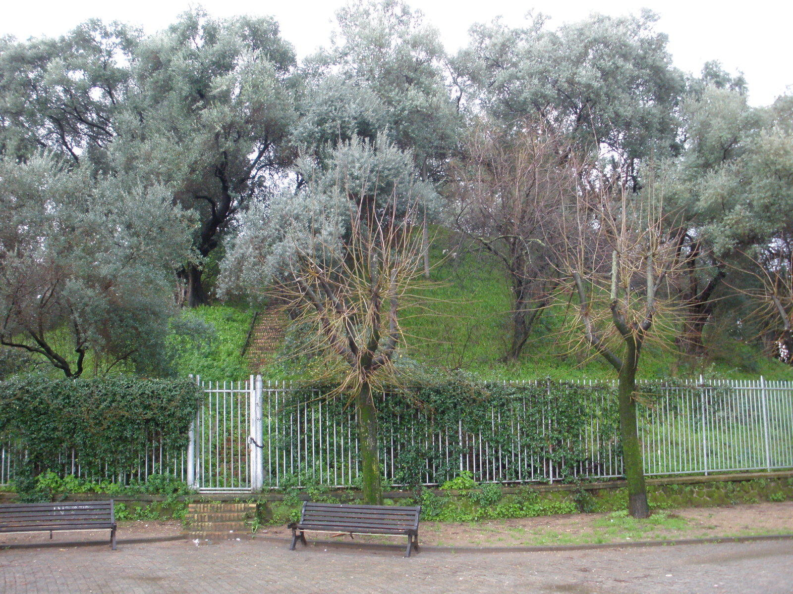 External view of the mausoleum